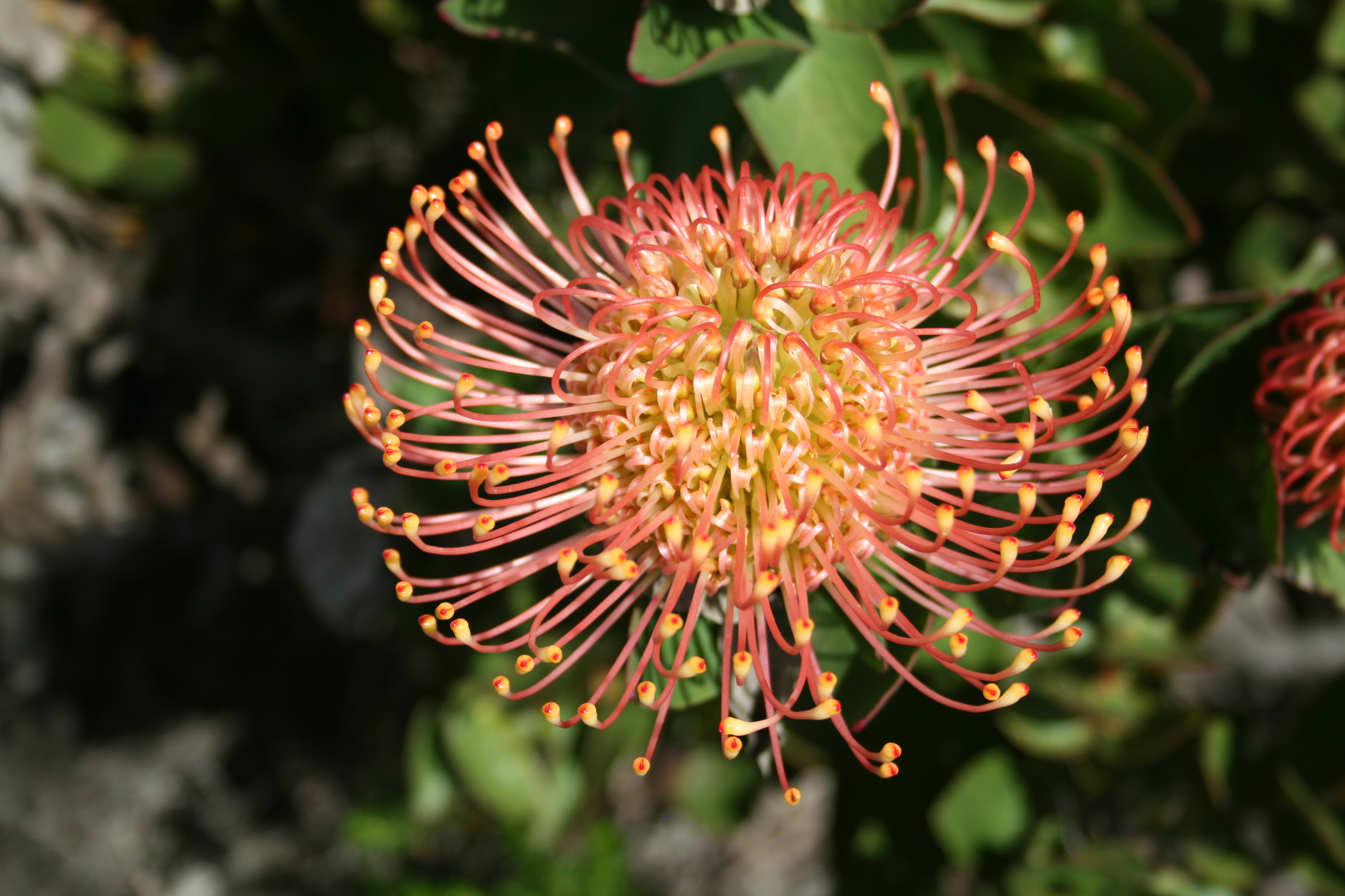 Leucospermum cordifolium, Helderberg Nature Reserve, South Africa